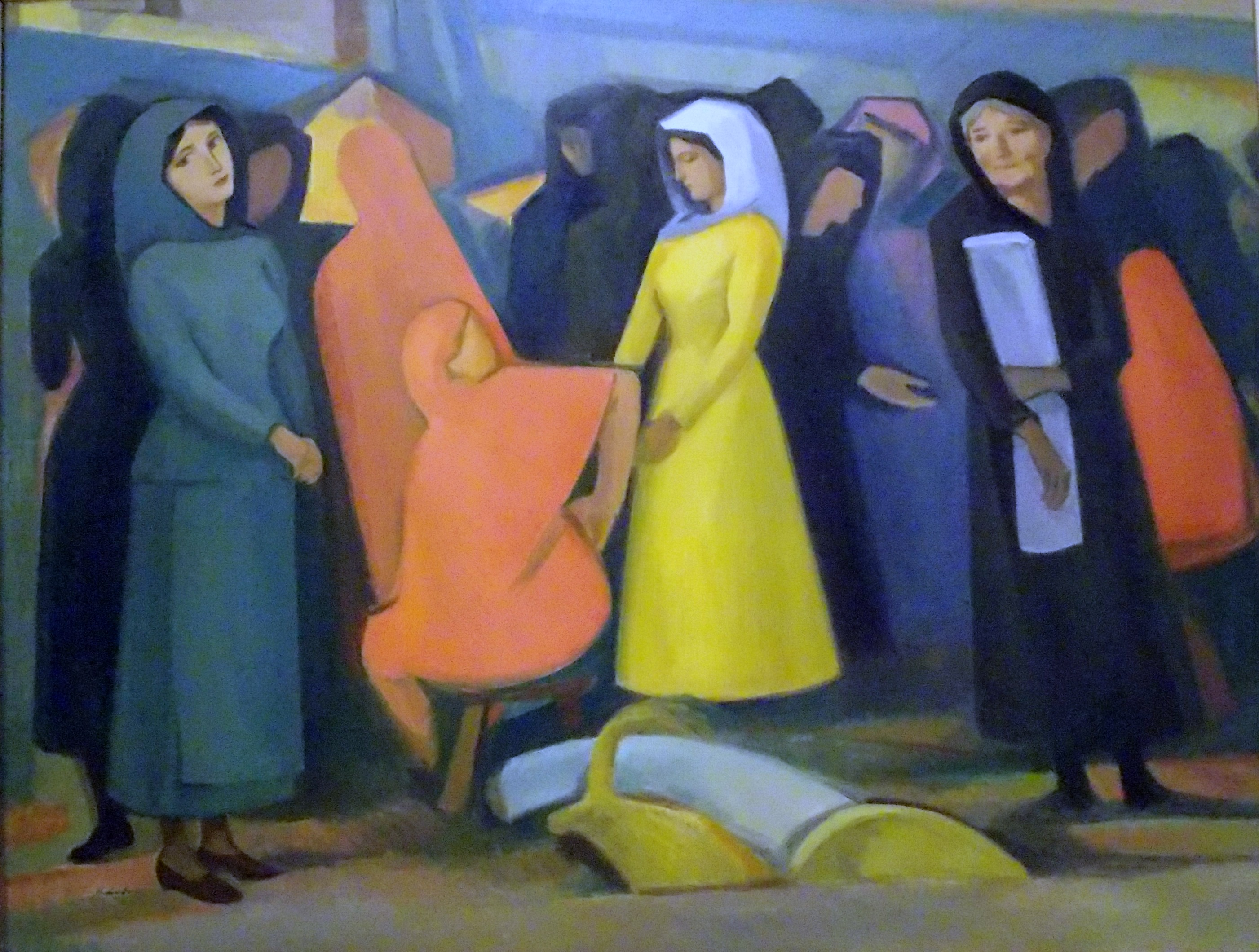 Leventis Gallery, Nicosia, Cyprus. Telemachos Kanthos - Women's bazaar II (1971). Oil on canvas.